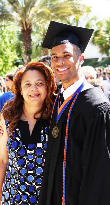 A picture of Scooter Magruder with his mom at graduation from the University of Florida.